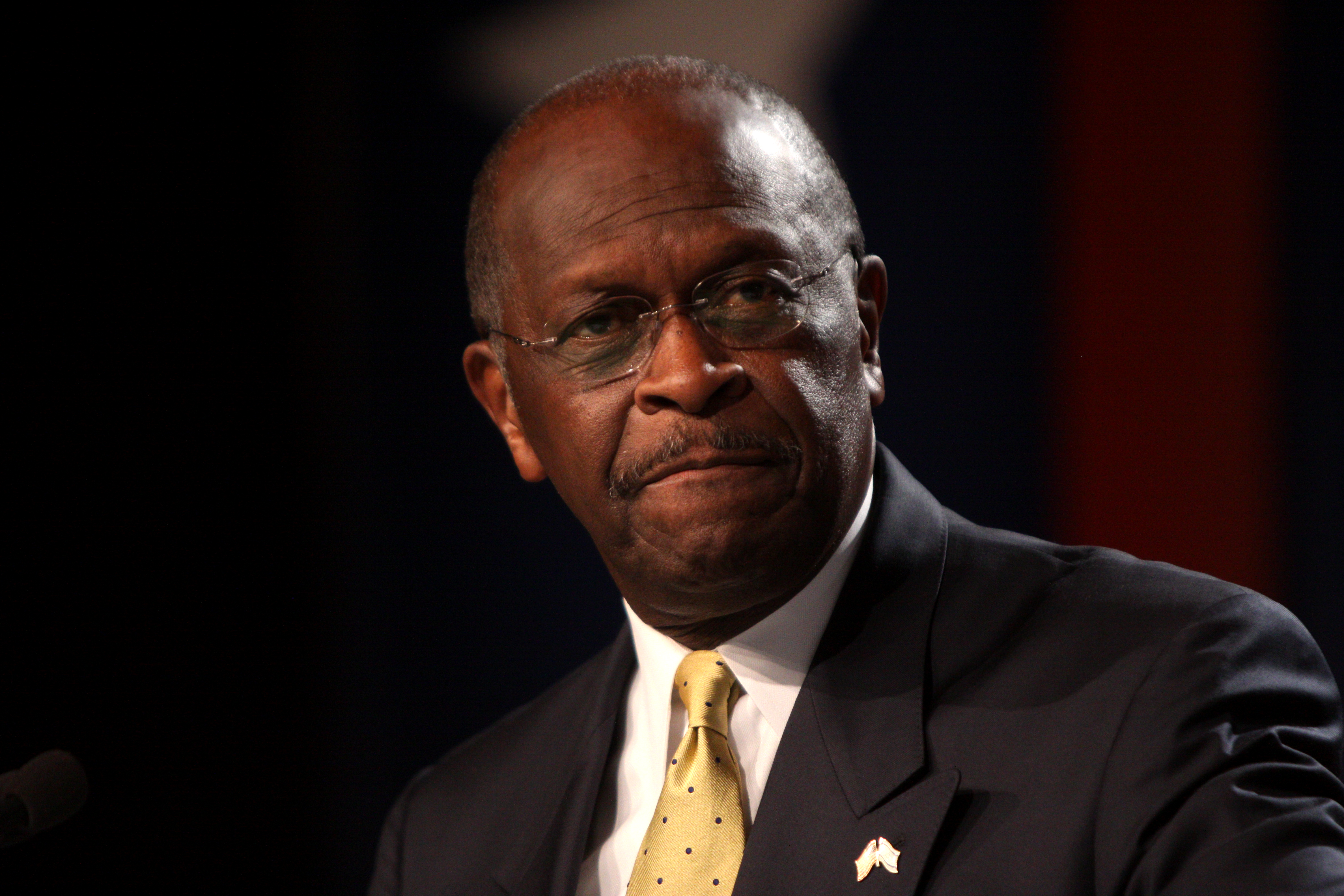 Herman Cain speaking at the Values Voter Summit in Washington, DC.